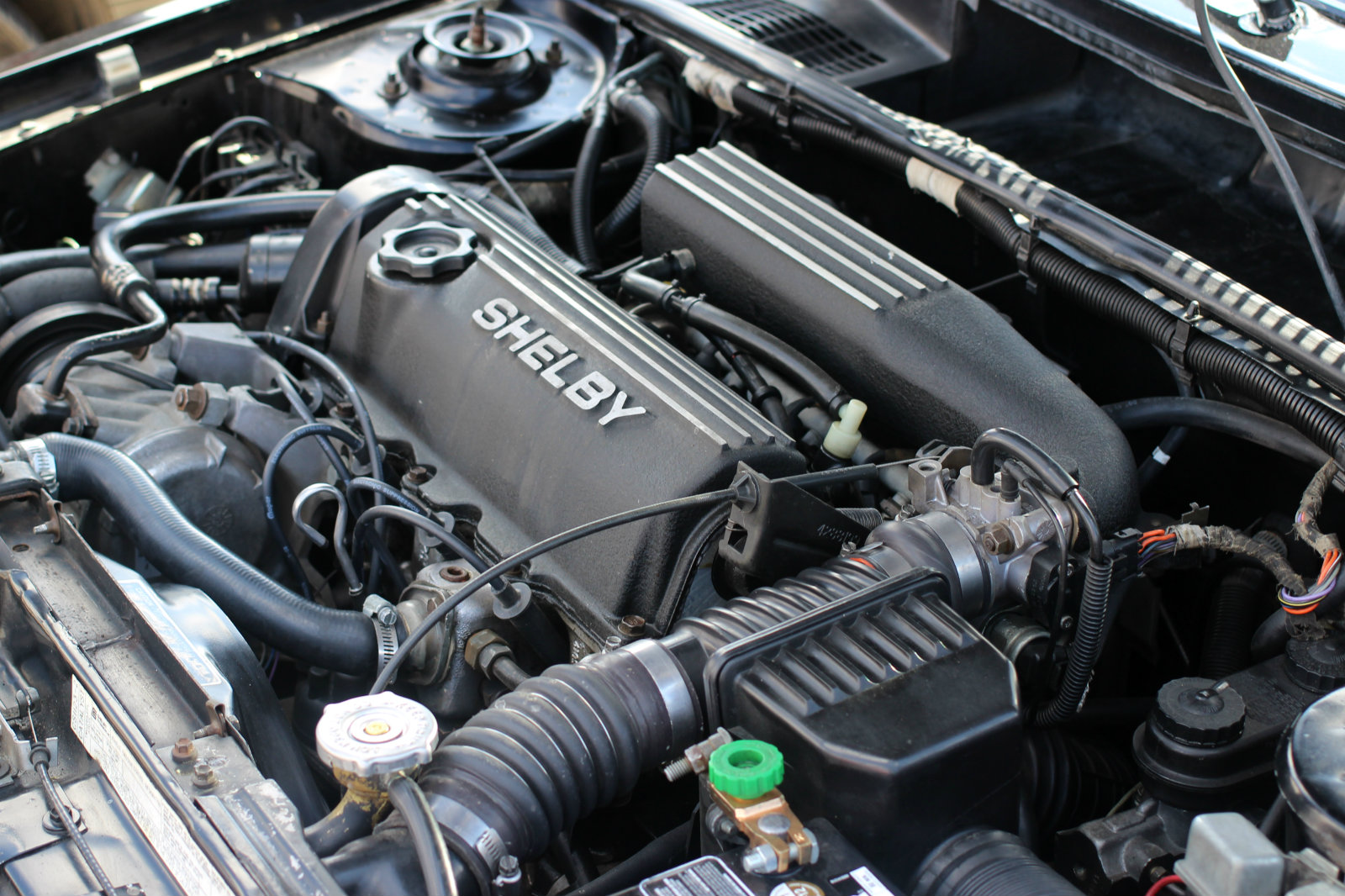 1987 Shelby GLHS engine